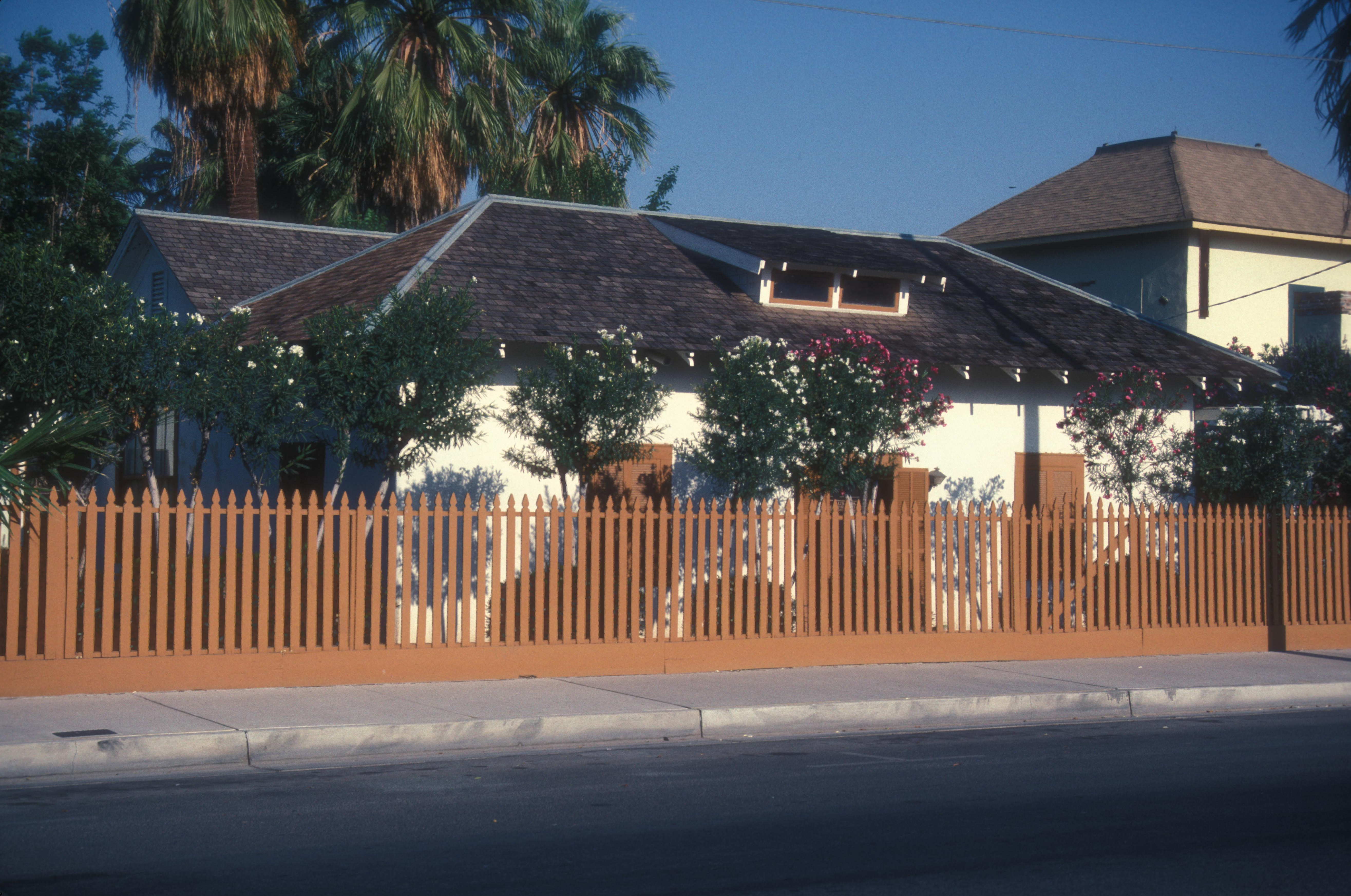 BUILT IN 1870’S; PURCHASED IN 1890 BY PIONEER MERCHANT E. F. SANGUINETTI. HE ADDED TO THE HOME AS HIS FAMILY GREW AND CREATED AN ITALIAN OASIS WITH A GARDEN AND BIRD AVIARIES, WHICH ARE MAINTAINED TODAY